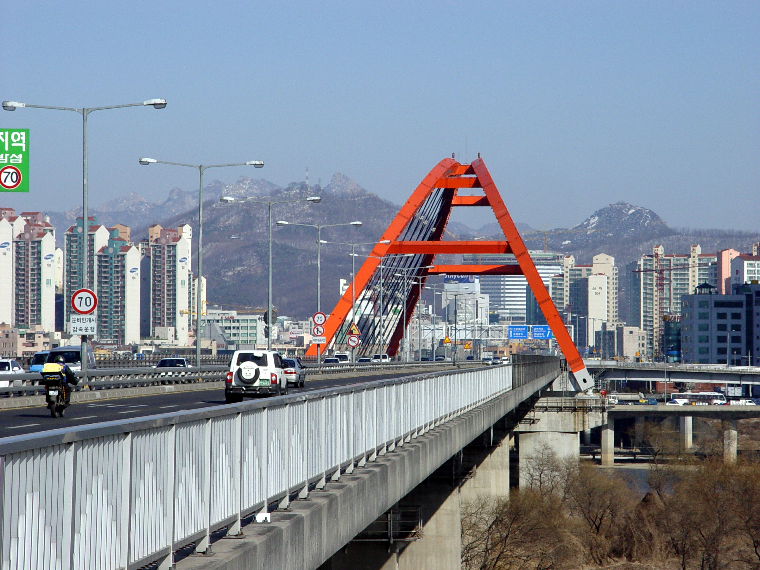 Seogang Bridge or Grand Seogang Bridge (Korean:서강대교) is a bridge over the Han River in Seoul, South Korea. It is supported in the middle as it passes over the island of Bamseom